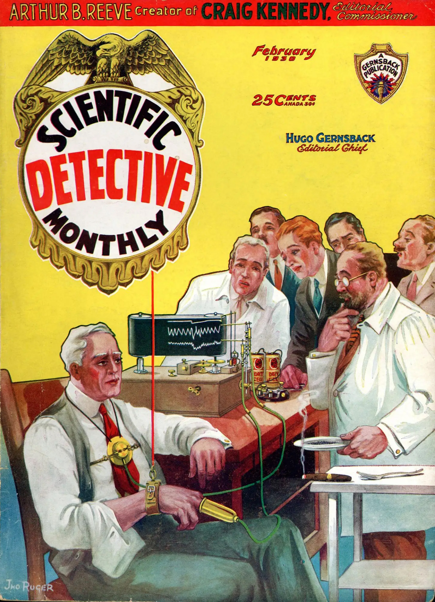 Cover of the February 1930 issue of Scientific Detective Monthly. Artist is Jno Ruger.